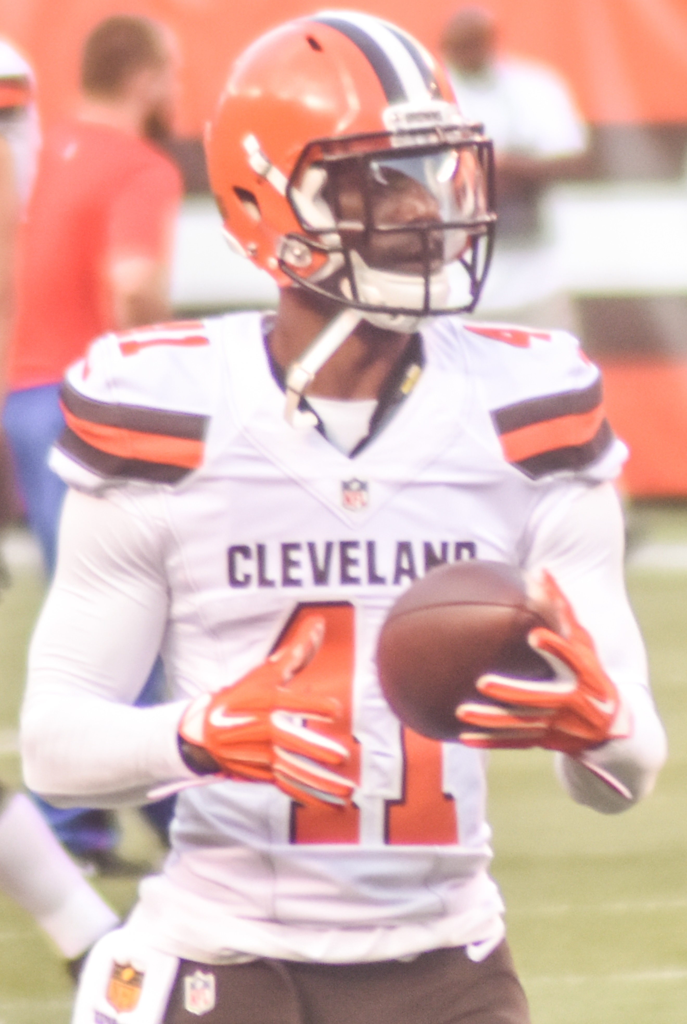 Browns vs Bills